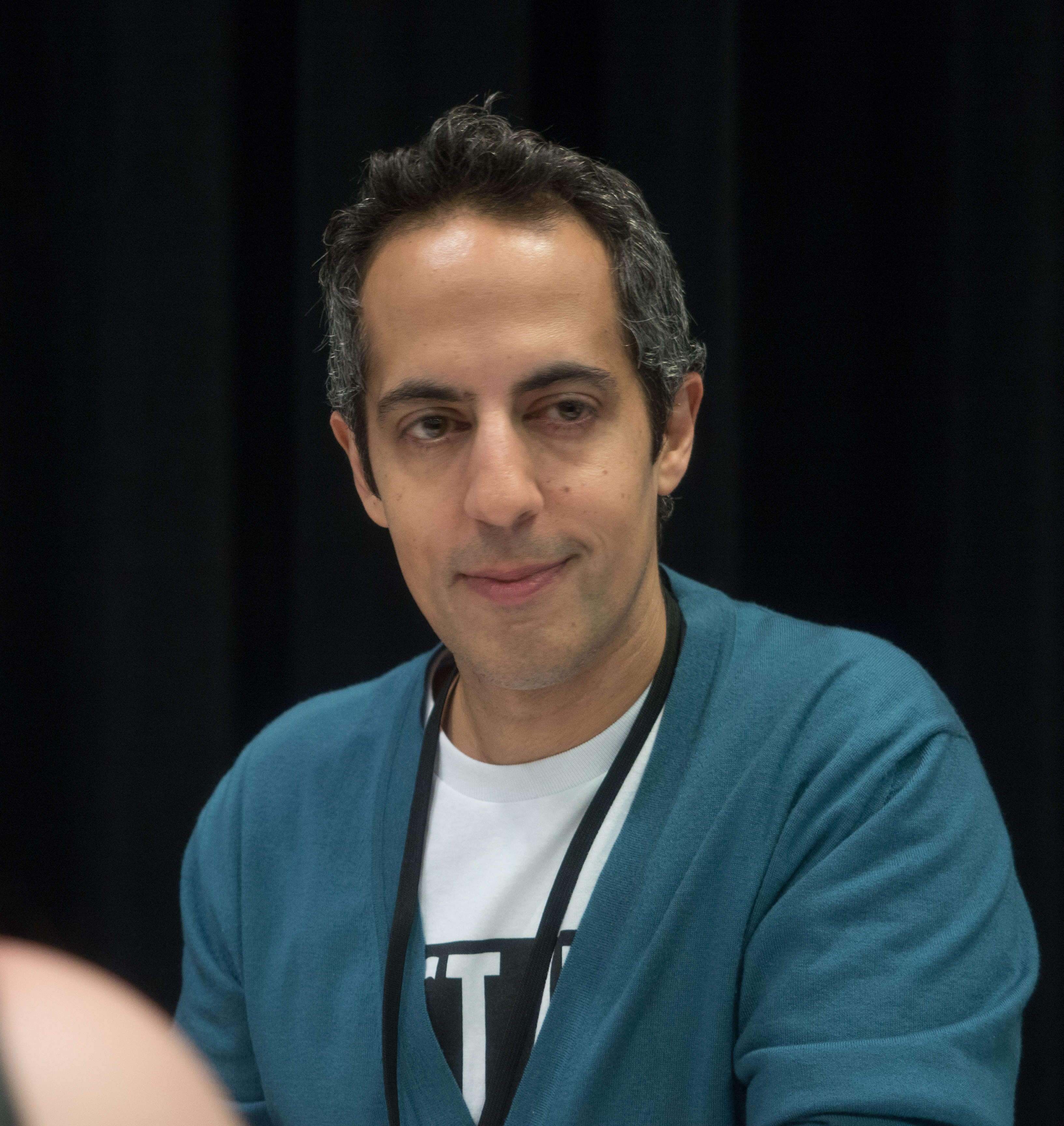 Abdi Nazemian at BookCon